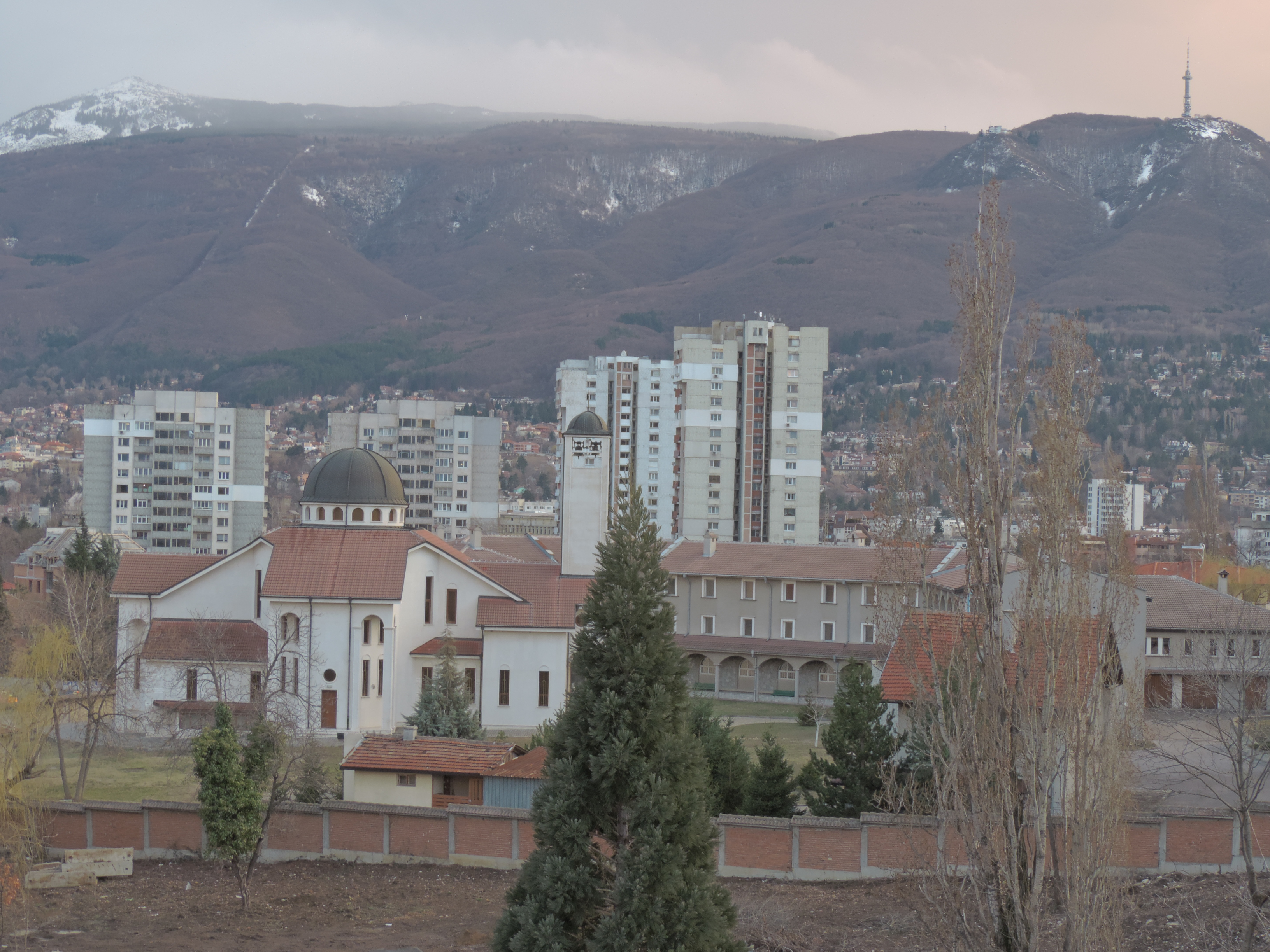 Female Catholic Monastery "Sisters of the Eucharist", 15 Montevideo Str., Ovcha Kupel, Sofia, Bulgaria. Monastery of the Catholic Apostolic Exarchate